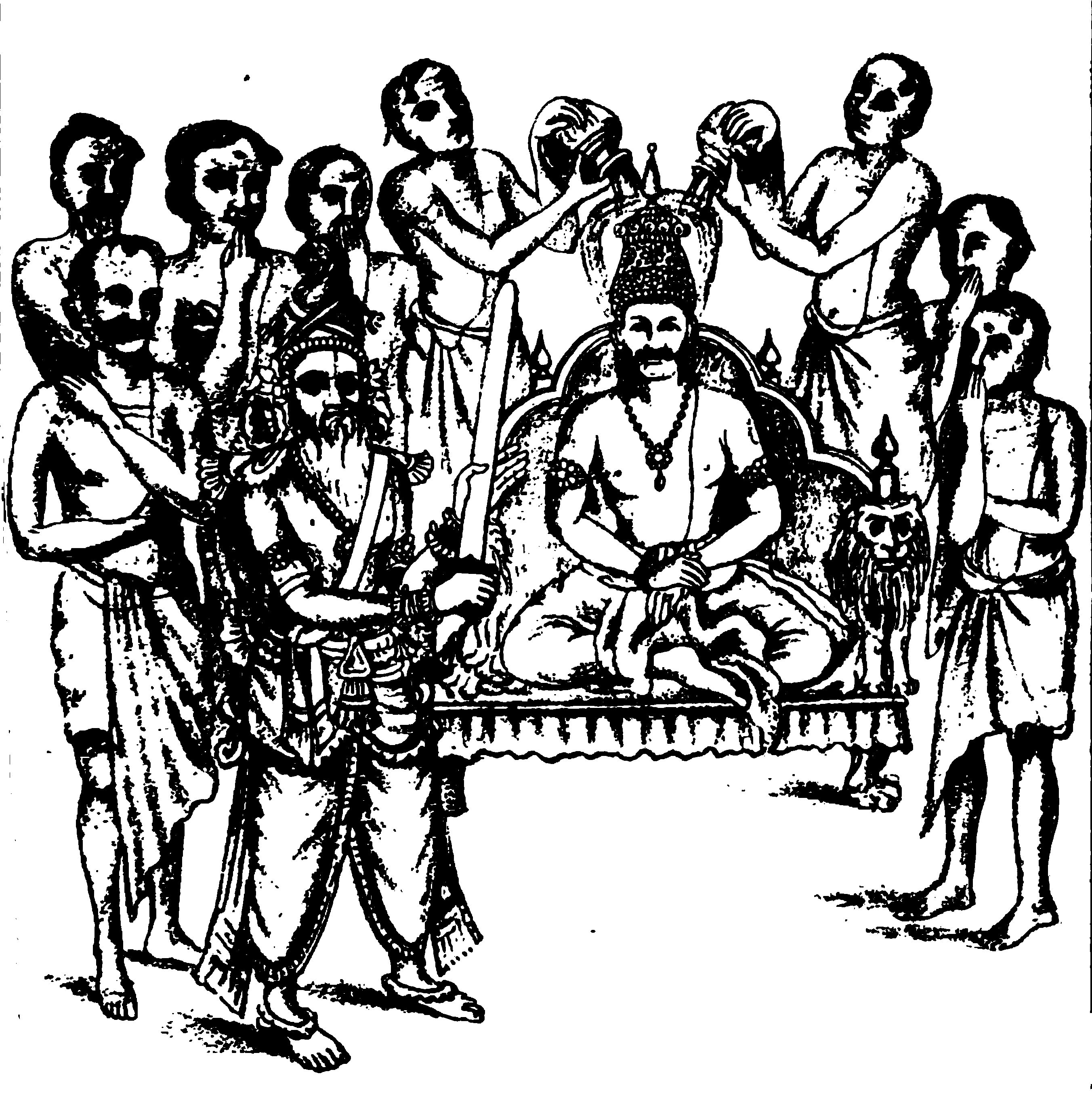 Installation of Bhanu Vicrama as King of Kerala